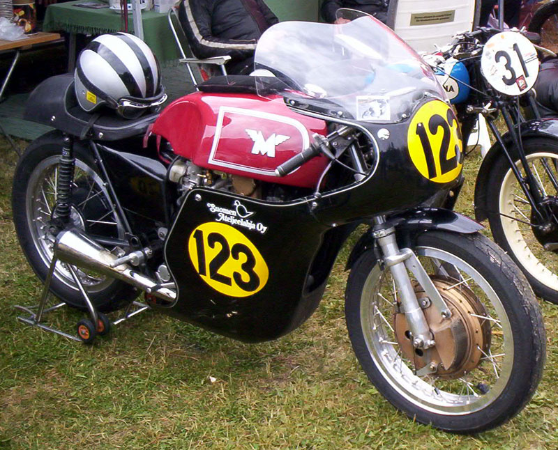 Matchless G50 500 cc Racer 1962